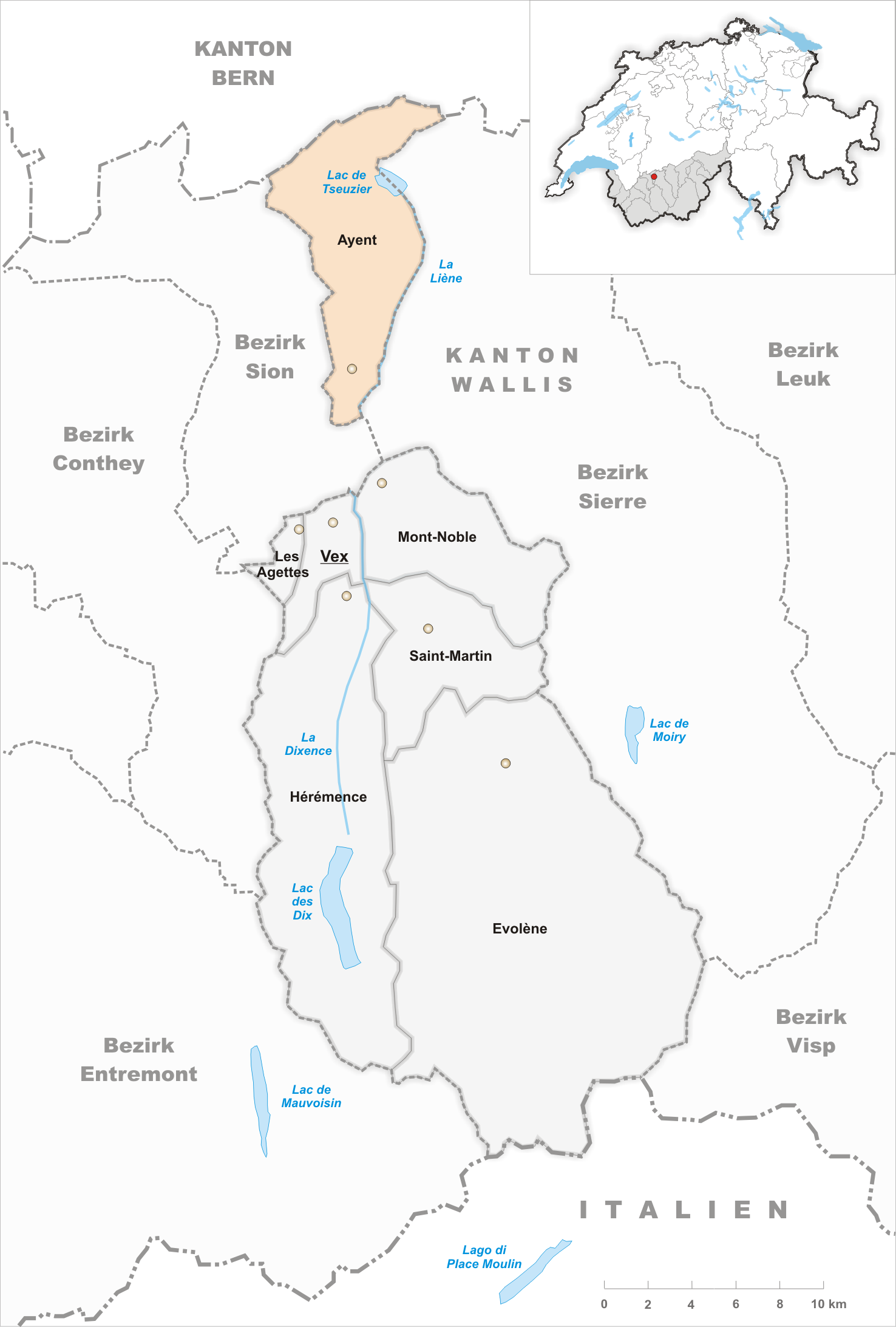 Municipality Ayent